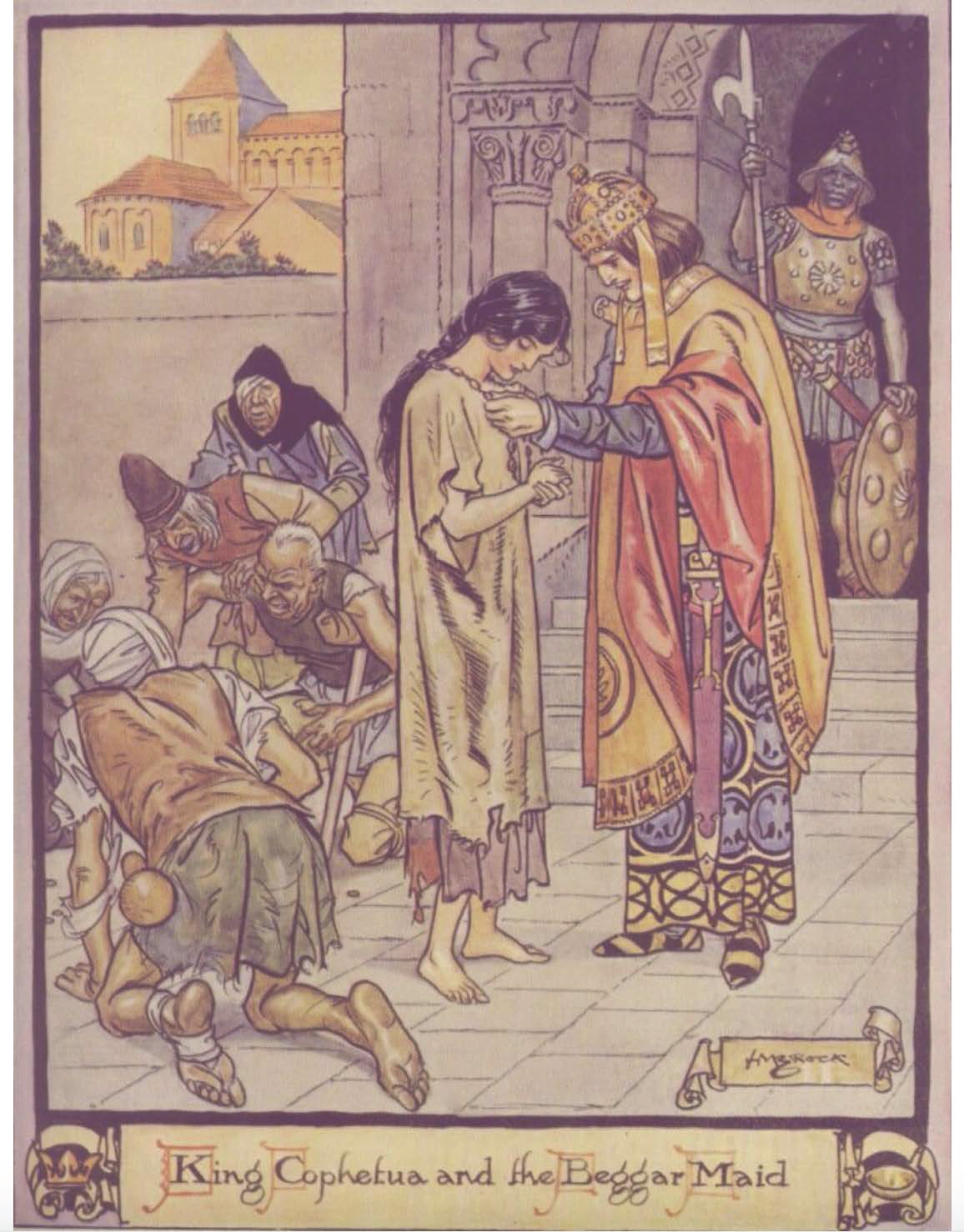 Illustration by Henry Matthew Brock for the "Book of Old Ballads", found in